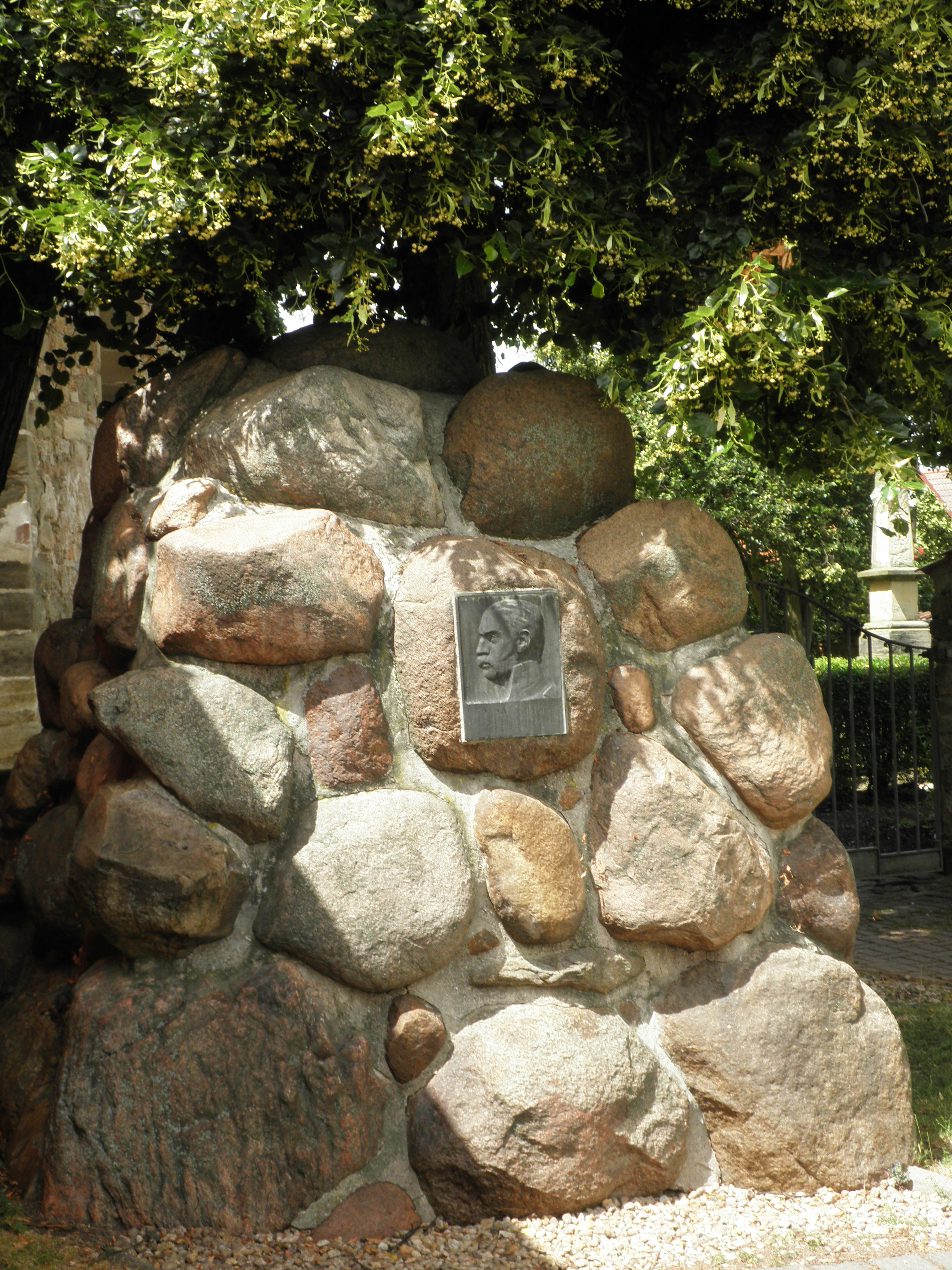 Monument Friedrich von Hellwig in Schloßvippach (Thuringia)